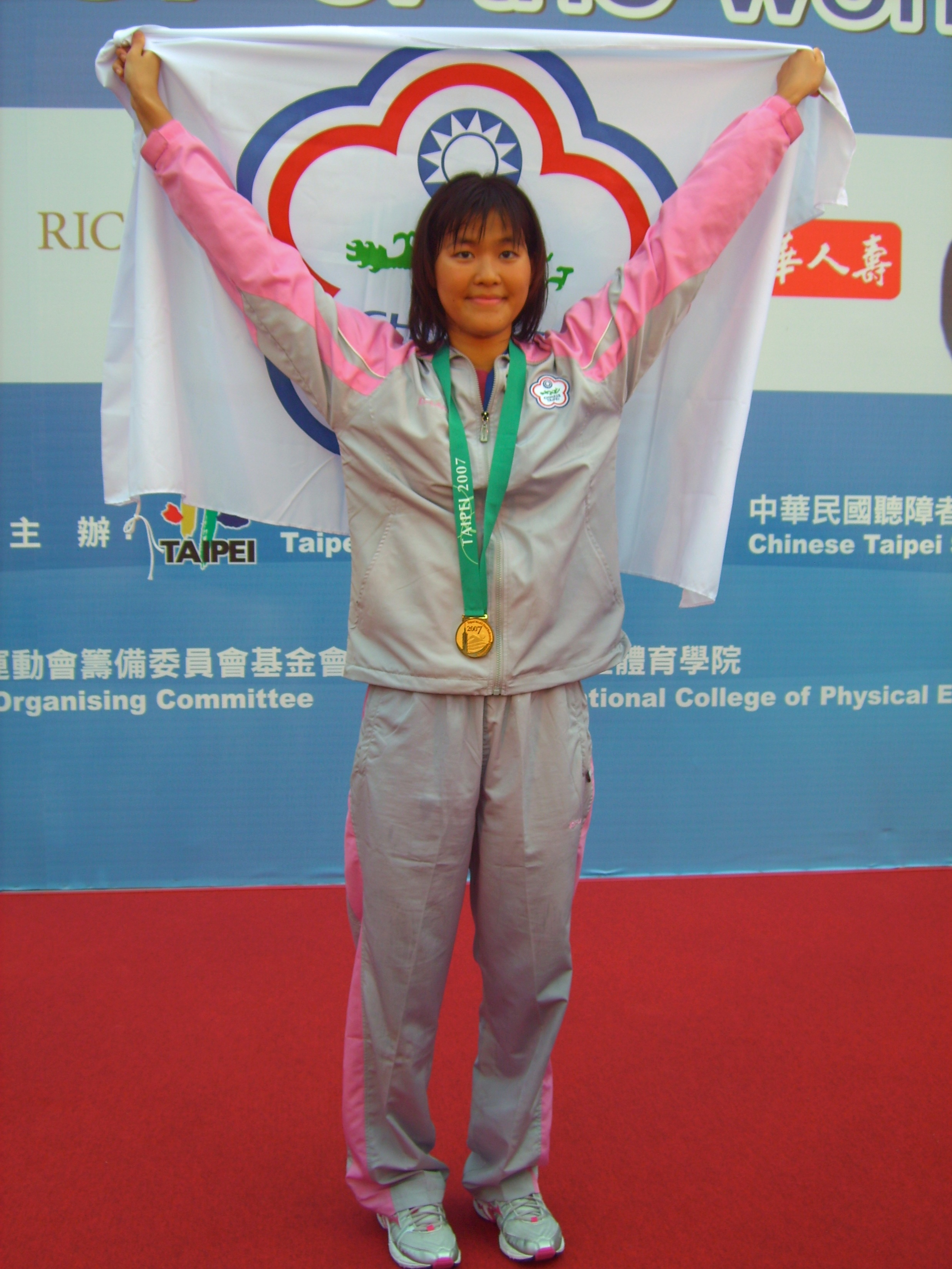 2007 World Deaf Swimming Championships: Shu-ning Tseng broke "women deaf swimmer 50m backstroke" world record.